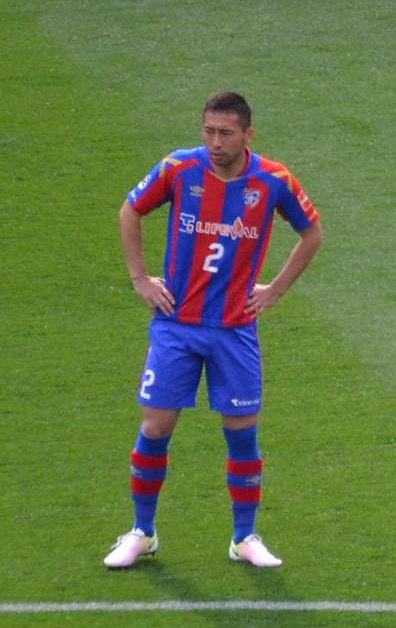 Yphei Tokunaga before the Tamagawa Clasico - the match between FC Tokyo and Kawasaki Frontale - played at Ajinomoto Stadium 16th April 2016.